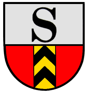 Coat of arms of Seefelden in Buggingen